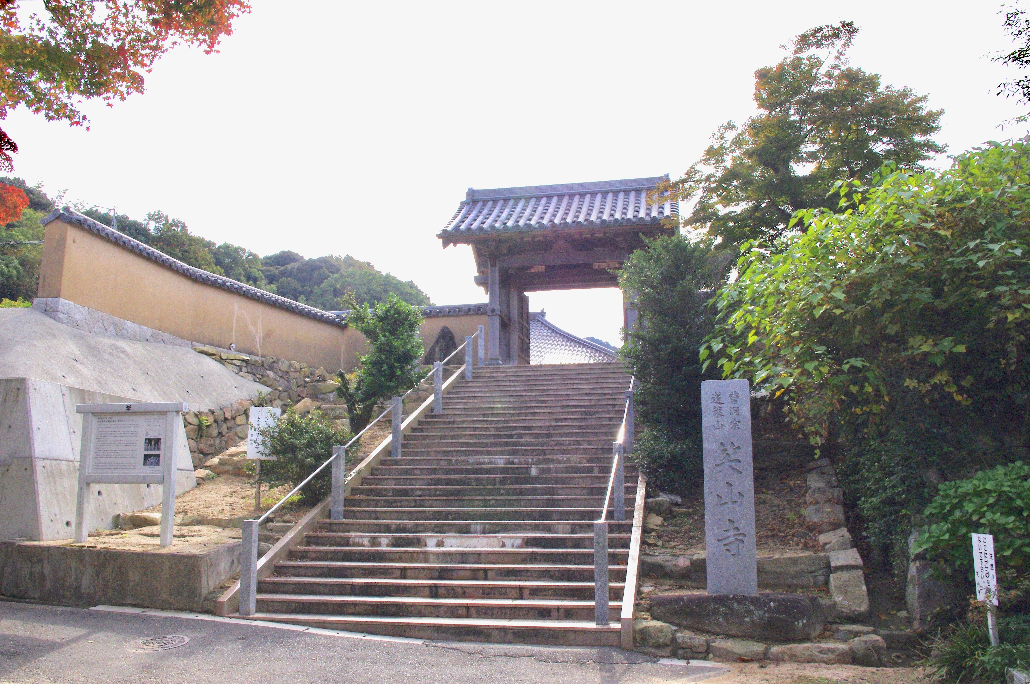 Sanmon（Temple gate）of Shozan-ji in Shimonoseki City, Yamaguchi Pref., Japan